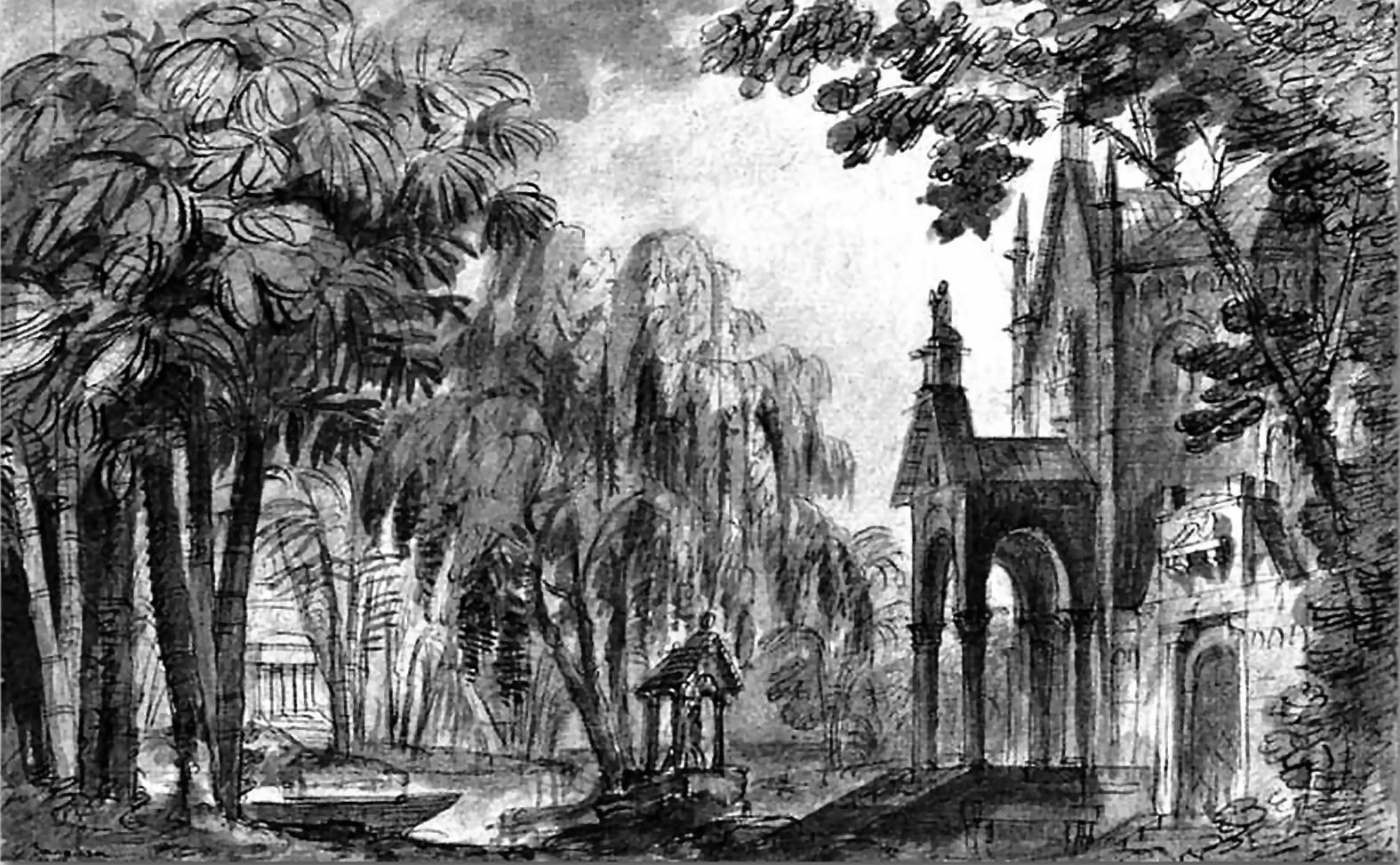 Francesco Bagnara's stage set (1835) for Giacomo Meyerbeer's Il crociato in Egitto (Act II, Scene 3)